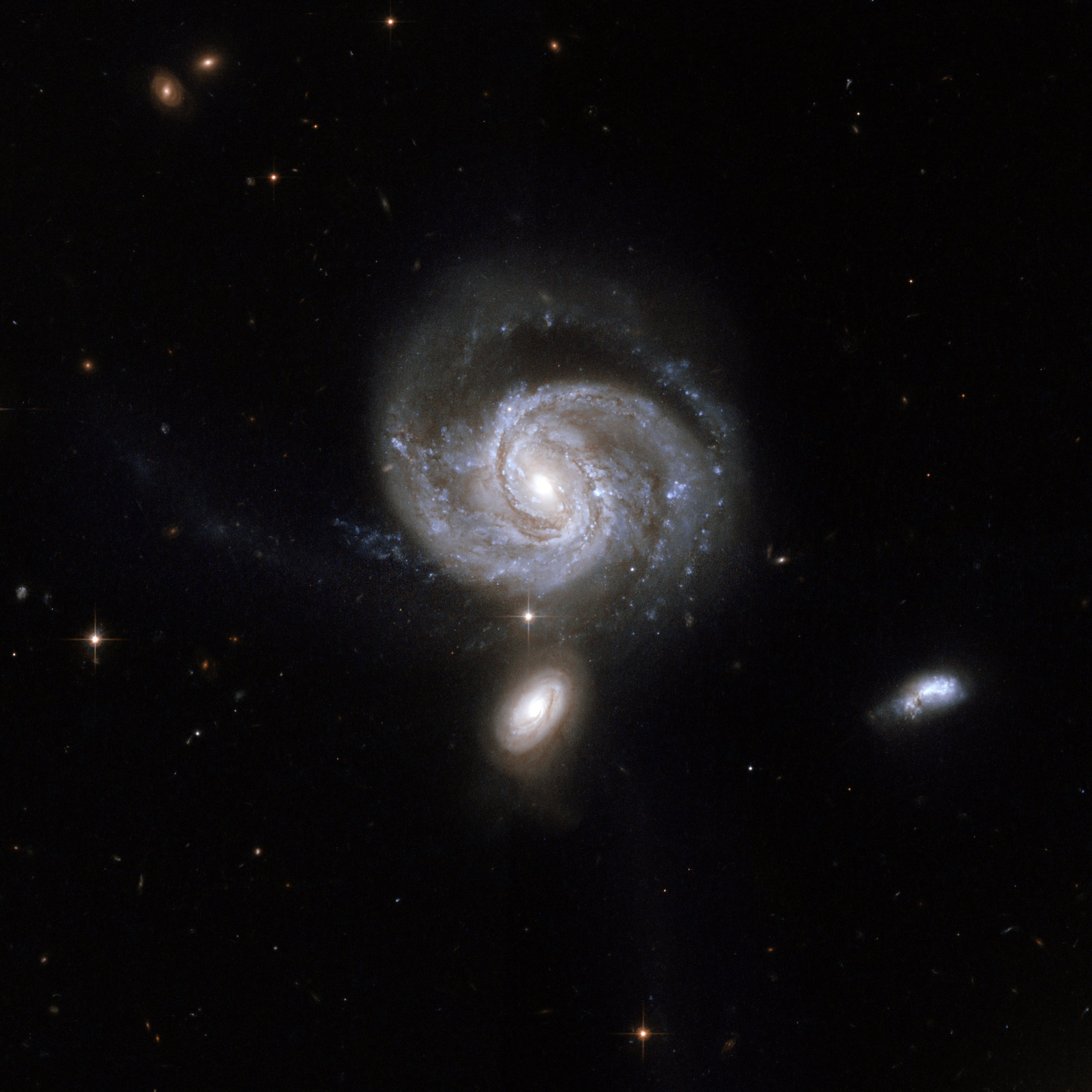 NGC 7674 (seen just above the center), also known as Markarian 533, is the brightest and largest member of the so-called Hickson 96 compact group of galaxies, consisting of four galaxies. This stunning Hubble image shows a spiral galaxy nearly face-on. The central bar-shaped structure is made up of stars. The shape of NGC 7674, including the long narrow streamers seen to the left of and below the galaxy can be accounted for by tidal interactions with its companions. NGC 7674 has a powerful active nucleus of the kind known as a type 2 Seyfert that is perhaps fed by gas drawn into the center through the interactions with the companions. NGC 7674 falls into the family of luminous infrared galaxies and is featured in Arp's Atlas of Peculiar Galaxies as number 182. It is located in the constellation of Pegasus, the Winged Horse, about 400 million light-years away from Earth. This image is part of a large collection of 59 images of merging galaxies taken by the Hubble Space Telescope and released on the occasion of its 18th anniversary on 24th April 2008. About the objectObject nameNGC 7674, Mrk 533, HCG 96, Arp 182, VV 343aObject descriptionInteracting GalaxiesPosition (J2000)23 27 56.88 +08 46 46.5ConstellationPegasusDistance350 million light-years (100 million parsecs)About the dataData descriptionThe Hubble image was created using HST data from proposal 10592: A. Evans (University of Virginia, Charlottesville/NRAO/Stony Brook University)InstrumentACS/WFCExposure date(s)June 9, 2002Exposure time33 minutesFiltersF435W (B) and F814W (I)